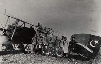 Breguet 14 in Turkish service during the War of Independence.